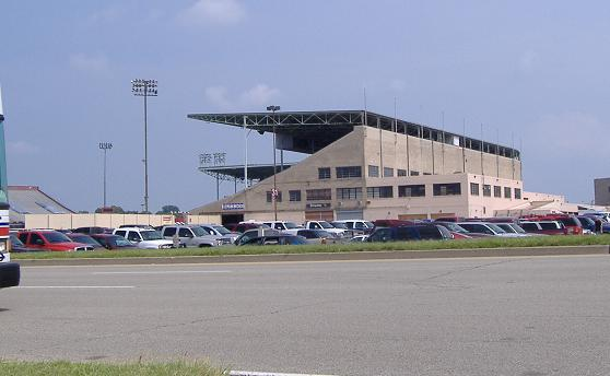 Cardinal Stadium inside the Kentucky Exposition Center.